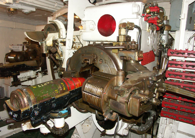 Six inch gun breech on HMS Belfast showing shell on loading tray.